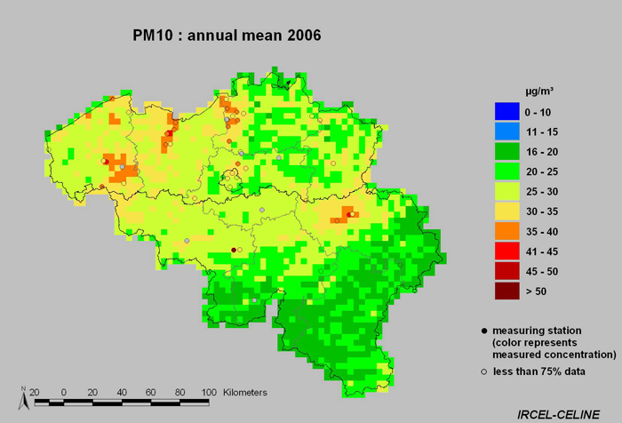 Annual emission of PM10 in Belgium in 2006.